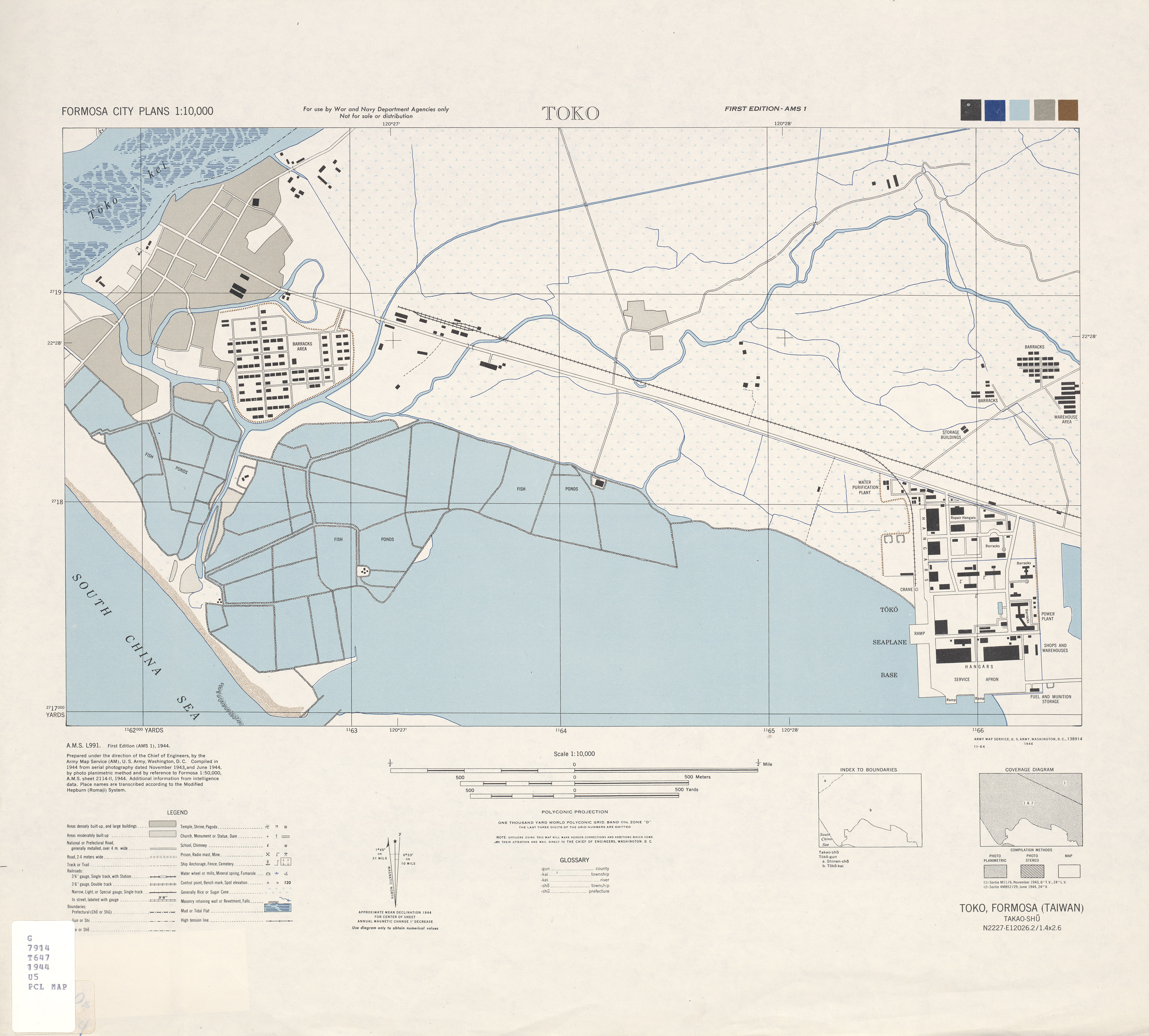 Map of Toko